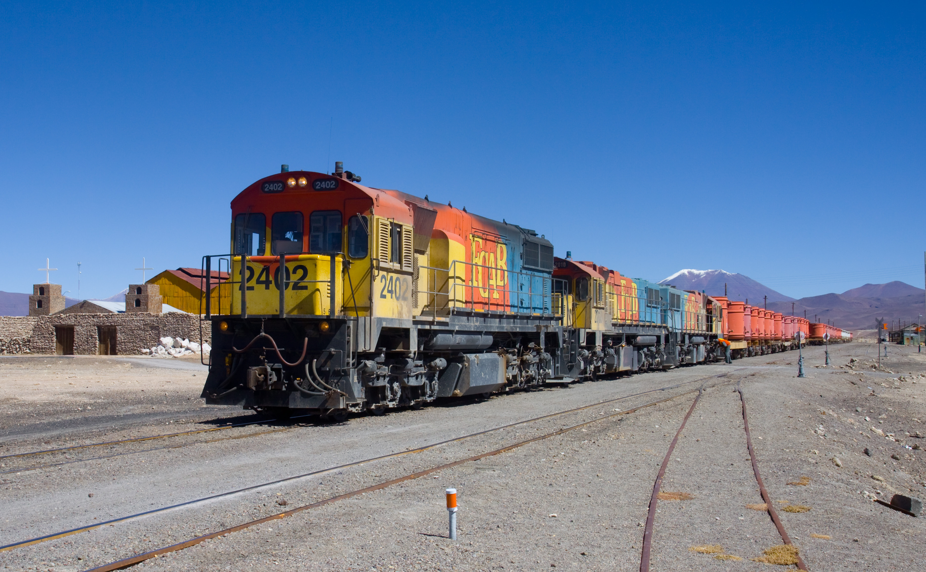 FCAB train with engines EMD GR12 2402, Clyde GL26C-2 2010 and Clyde GL26C-2 2005 at Ollagüe, Chile. The train has been split into two parts, because it's too long to fit into the station, and the locomotives are being uncoupled. In about an hour a train will arrive from Bolivia, and the two trains will be exchanged.